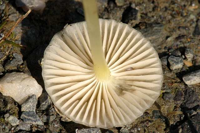 Mycena epipterygia from Commanster, Belgian High Ardennes. The determination of the species shown in this picture has been verified.